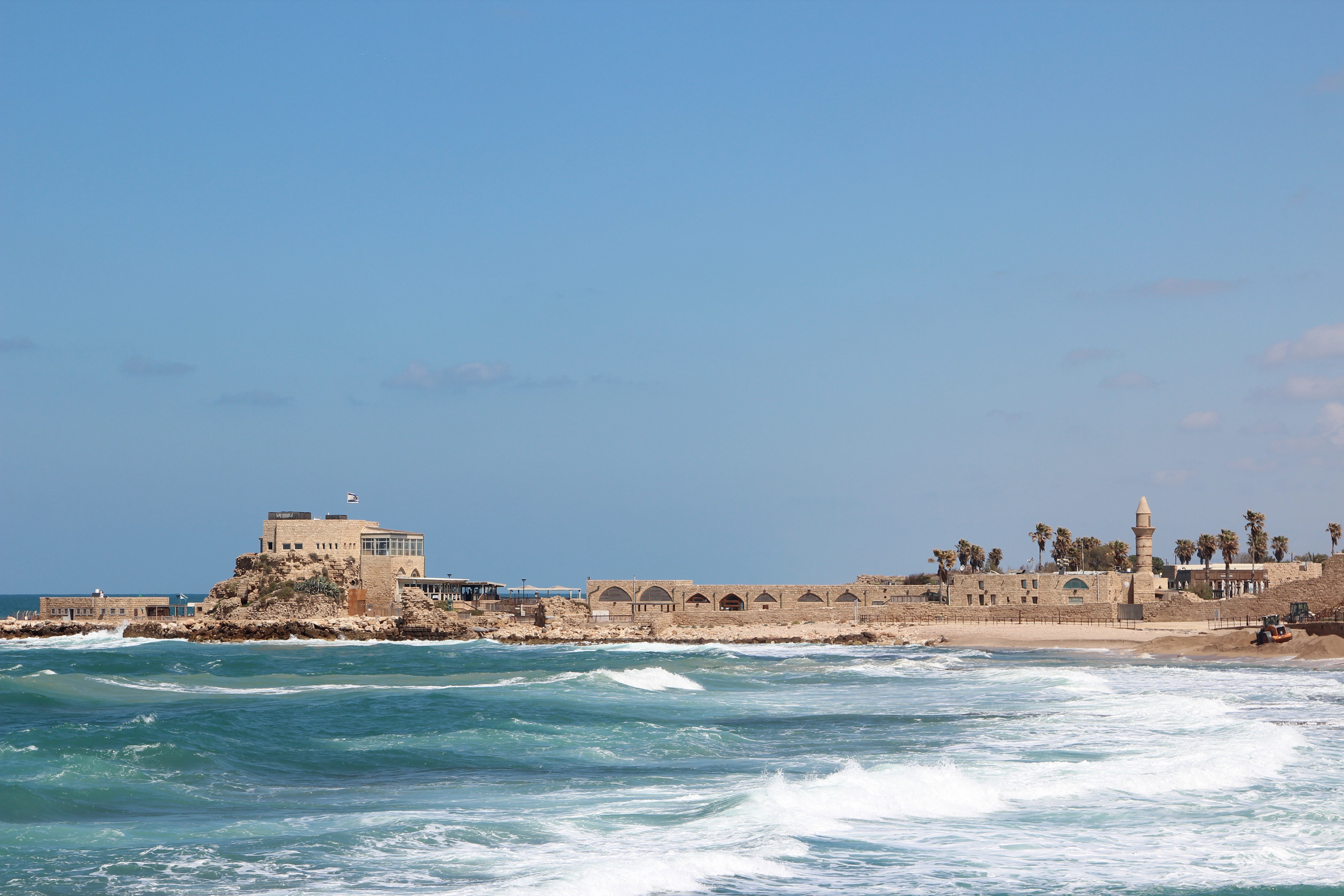 Caesarea Maritima Harbour